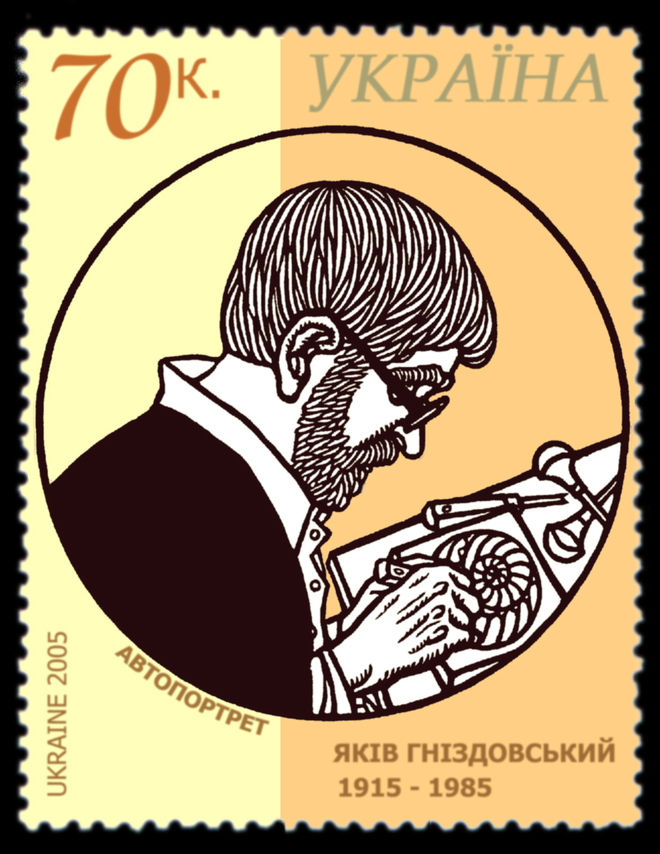 authorized derivative work (Ukrainian stamp project) by Andrey Sdobnikov using a self-created authorized derivative work by S. Hnizdovsky of the print Self-Portrait by Jacques Hnizdovsky)